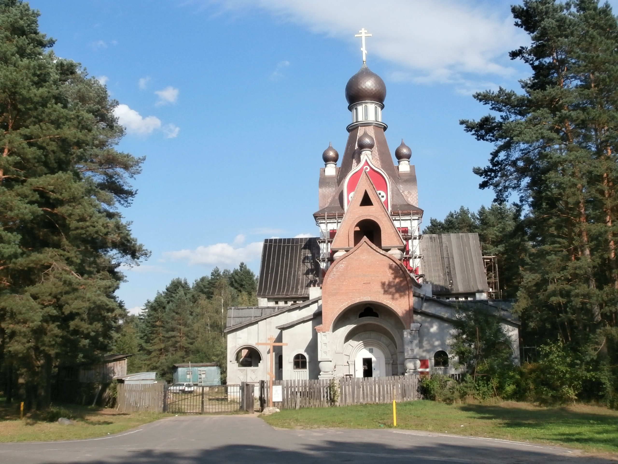 Church of the Ascension of Christ in Zhdanovichi 23 August 2014